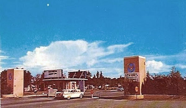 Walker AFB front gate postcard, circa 1960